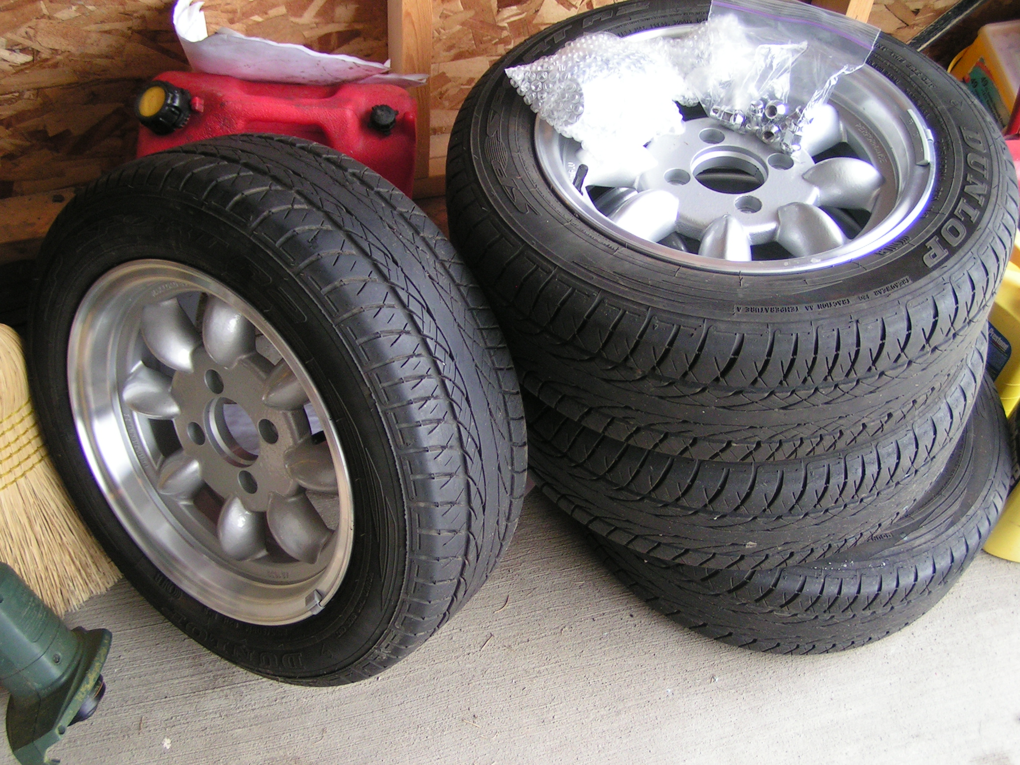 Superlight Wheels for my Seven - a copy of the iconic Minilite design.